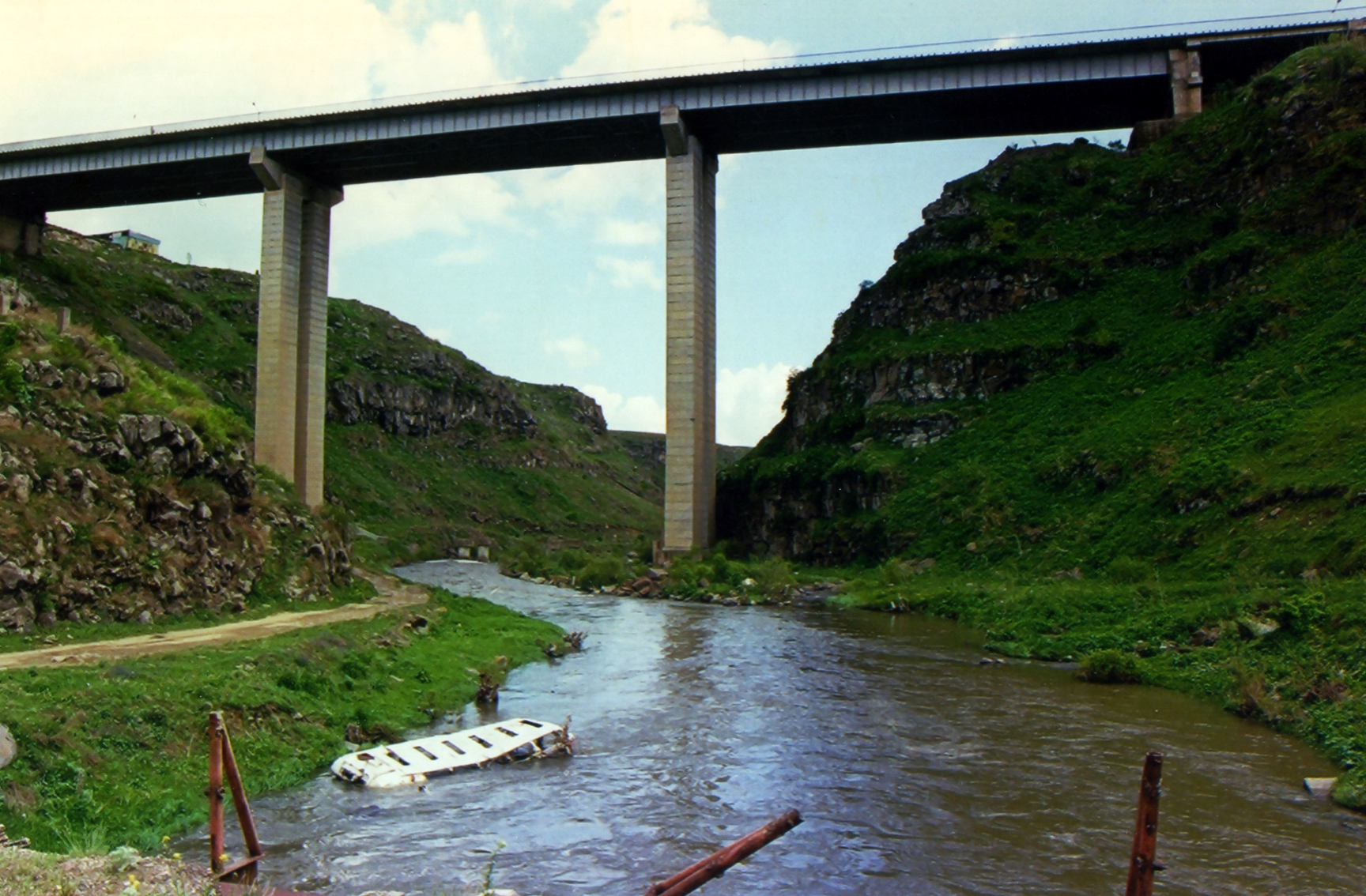 Debed River, Stepanavan